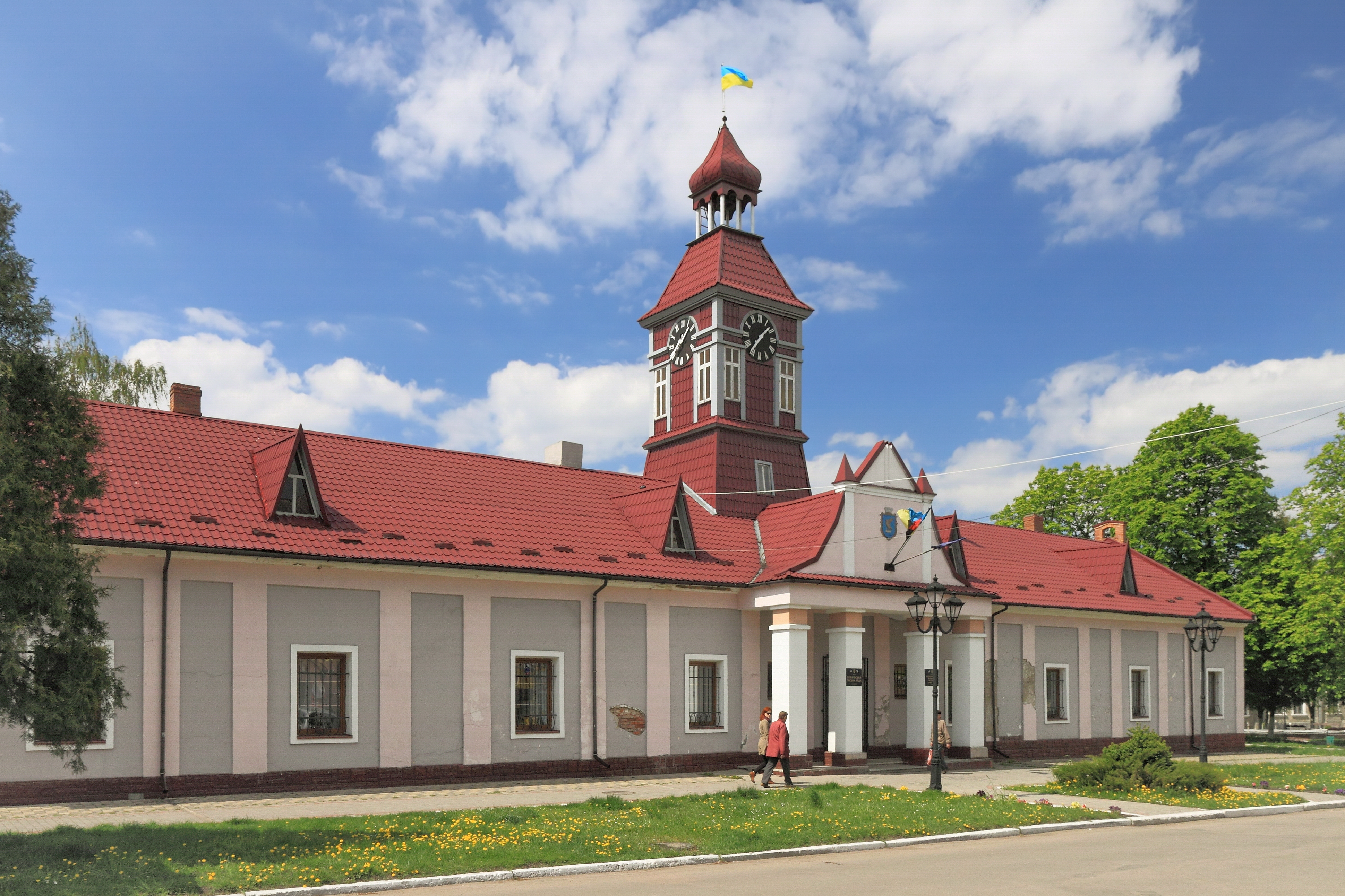 Town hall. Sokal, Lviv Oblast, Ukraine.